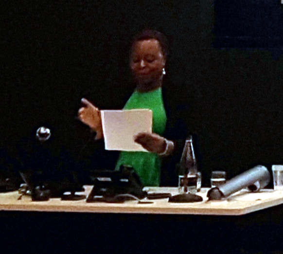 Professor Olivette Otele (University of Bath Spa) giving the keynote lecture at the 2019 social History of Medicine conference held in June 2019.